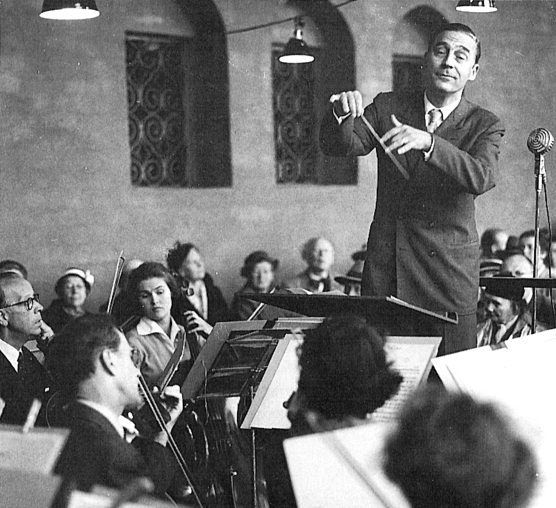 Sten Frykberg (1910-1983) conducting a radio concert